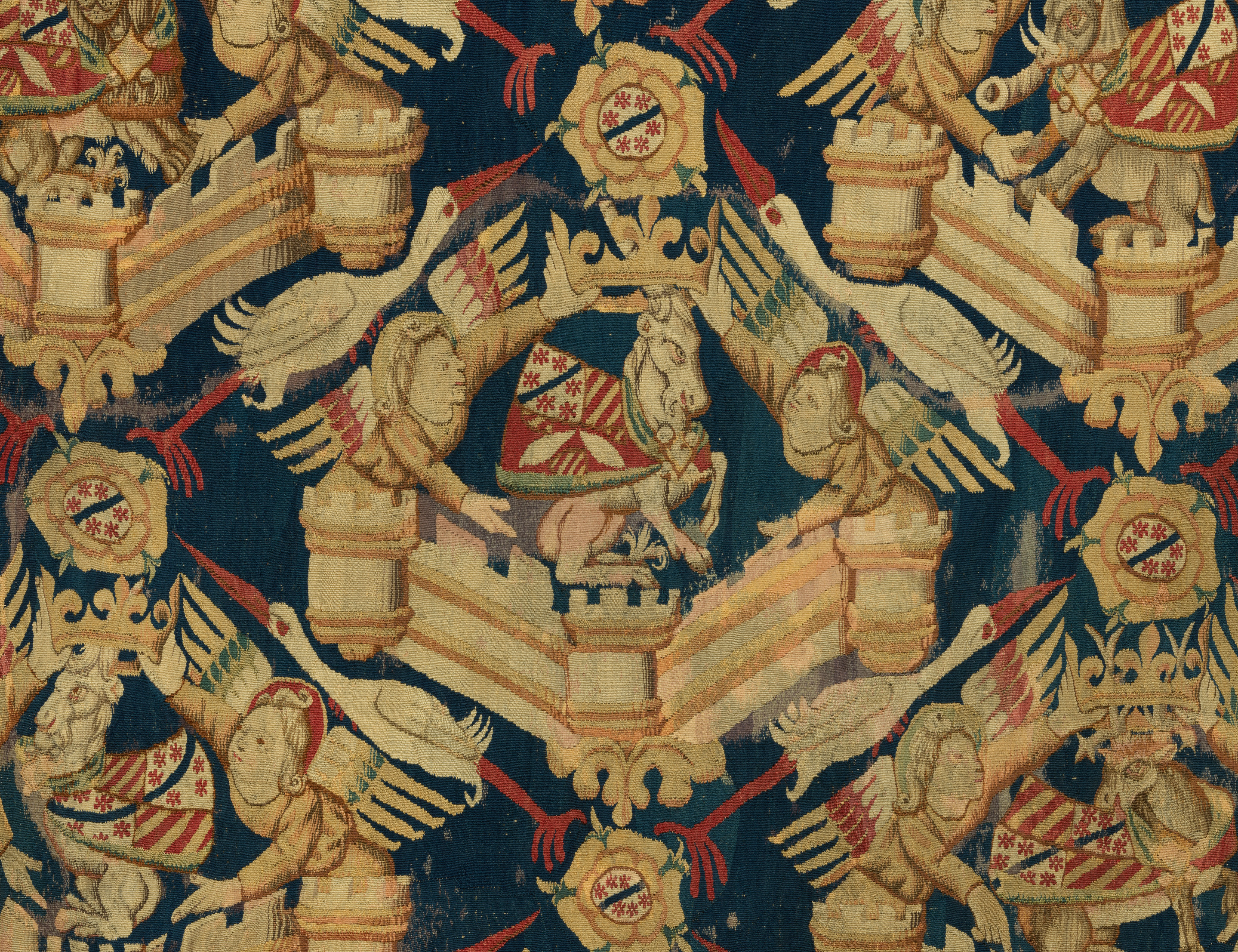 Detail of a Tapestry. South Netherlandish; Tapestry; Textiles-Tapestries. The arms on caparisons and roses, variously combined, are of Guillaume Rogier, Count of Beaufort, viscount of Turenne and his wife Eleanor of Comminges.